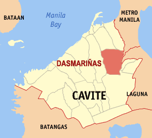 Map of Cavite showing the location of Dasmariñas